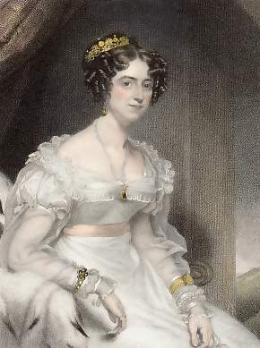 Portrait engraving, hand-coloured, of Charlotte Georgiana, Lady Rodney (died 1878), wife of George Rodney, 3rd Baron Rodney.